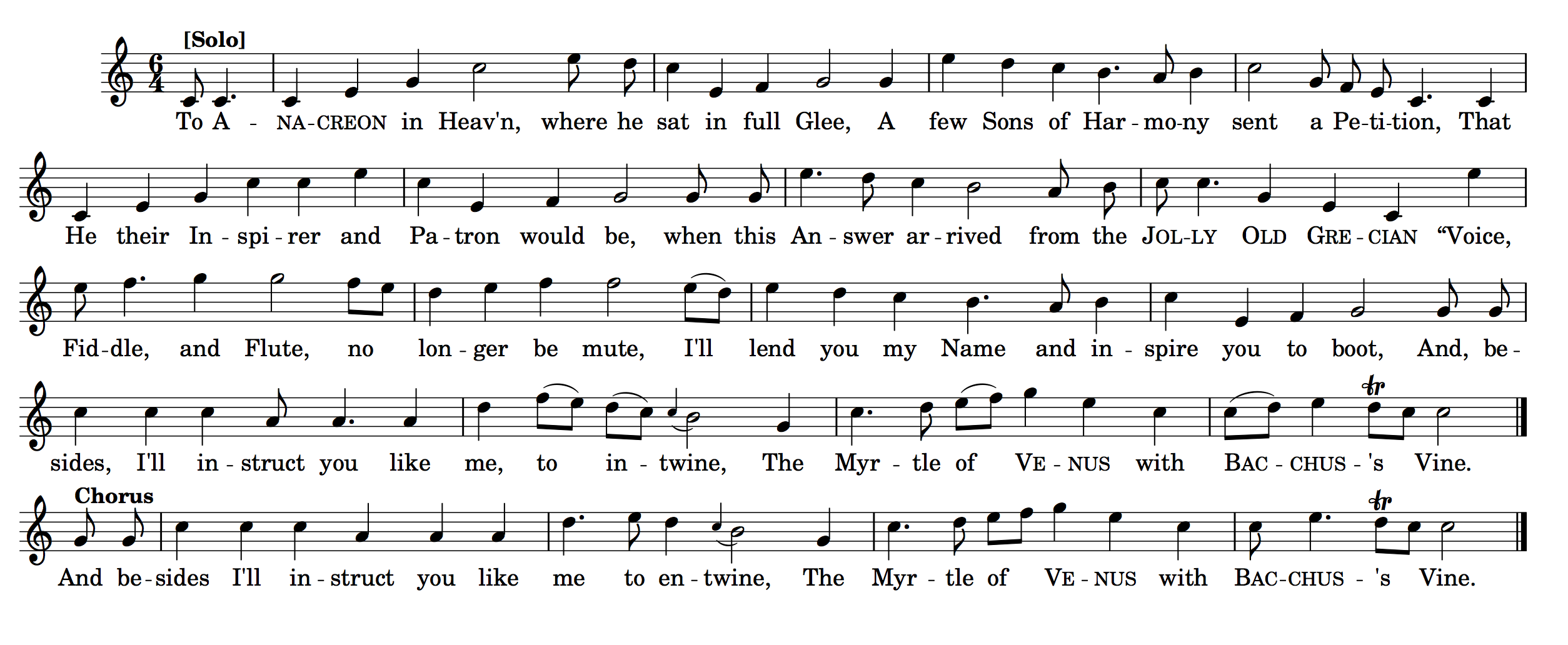 Melody of The Anacreontic Song, from the first Longman & Broderip edition (c. 1780). Transcribed and typeset in Lilypond by the uploader.